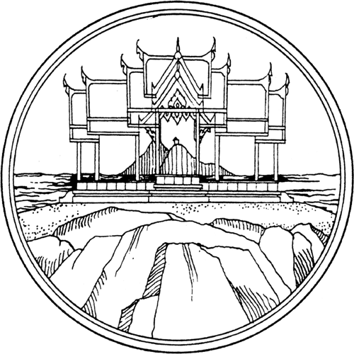 Provincial seal of the Prachuap Khiri Khan province, Thailand.